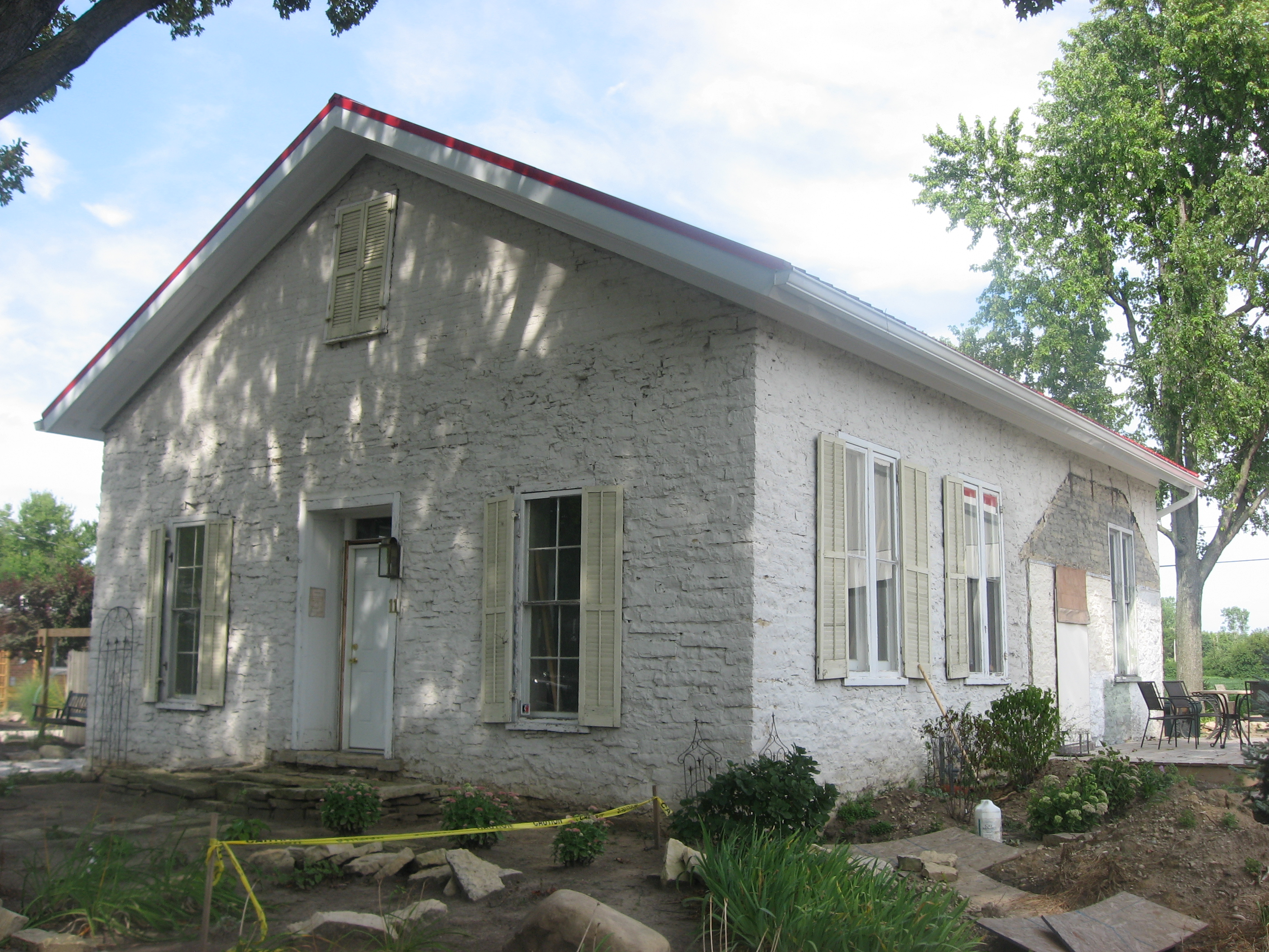 View from the southwest of the Casstown Lutheran Stone Church, located at 11 S. Main Street in Casstown, Ohio, United States. Built in 1839 and since converted into a house, it is listed on the National Register of Historic Places.